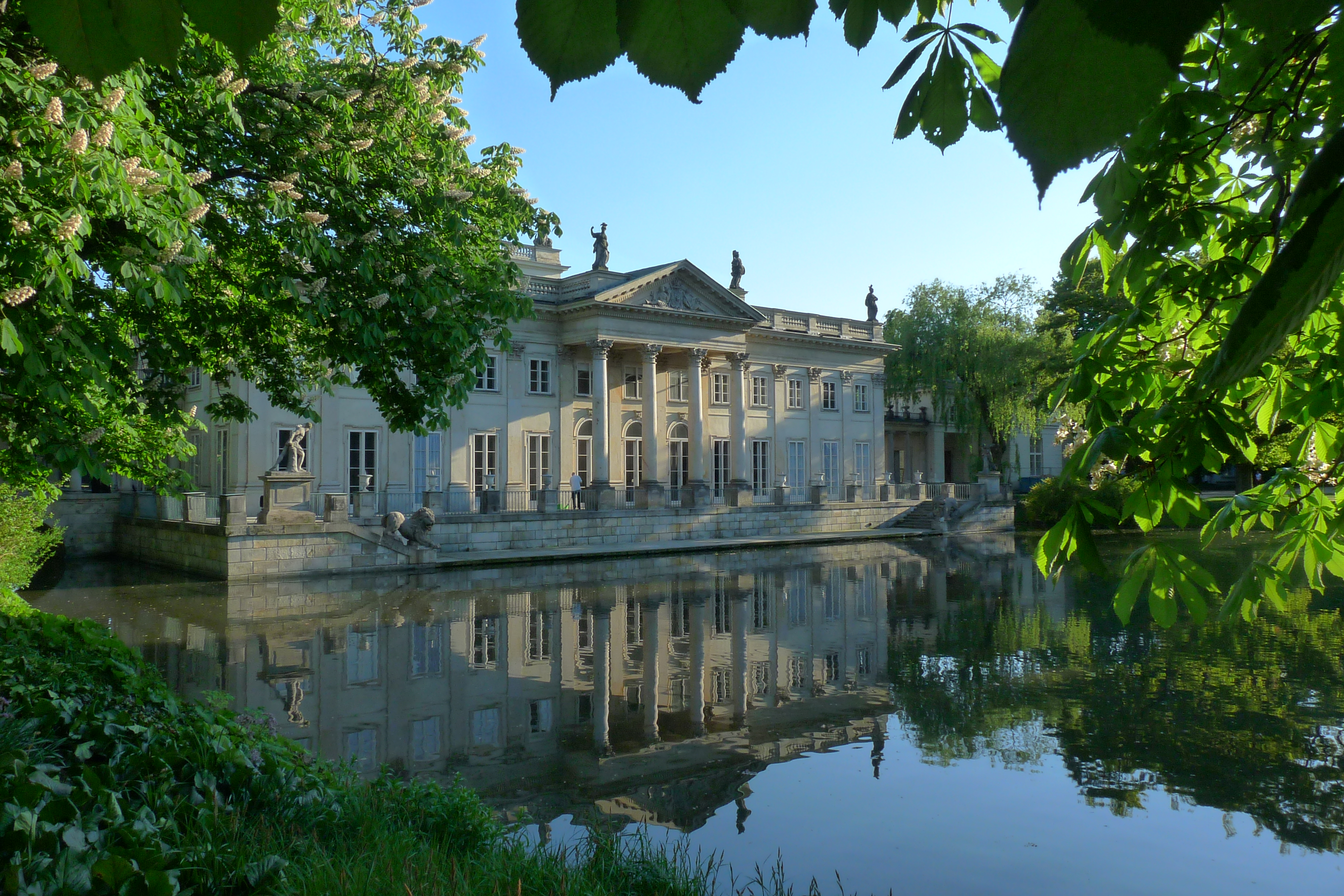 Palace on the Isle